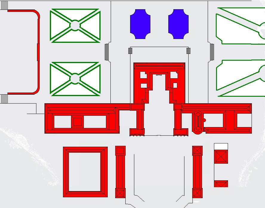 Versailles as it was built when Louis XIV died. A chapel has been constructed to the right of the fore-court.Note the vaulted roof over the galery of mirrors on the garden side of the corps-de-logis.